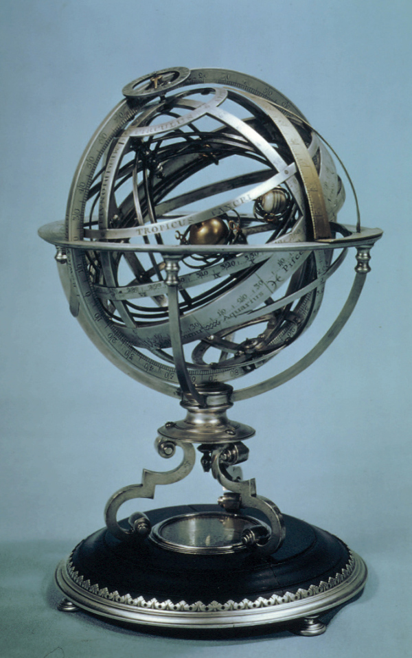 English Copernican Armillary Sphere c.1700 Silver, brass, steel, ebony and ivory; with shaped casket of lignum vitae, brass and ivory. Signed, "I. Rowley Fecit"; undated. This armillary sphere illustrates the Copernican planetary theory, and is similar in design to the larger Copernican armillary sphere by Rowley (see Inv 22258). There is a separate graduated arc for measuring altitudes. inventory number: 22252